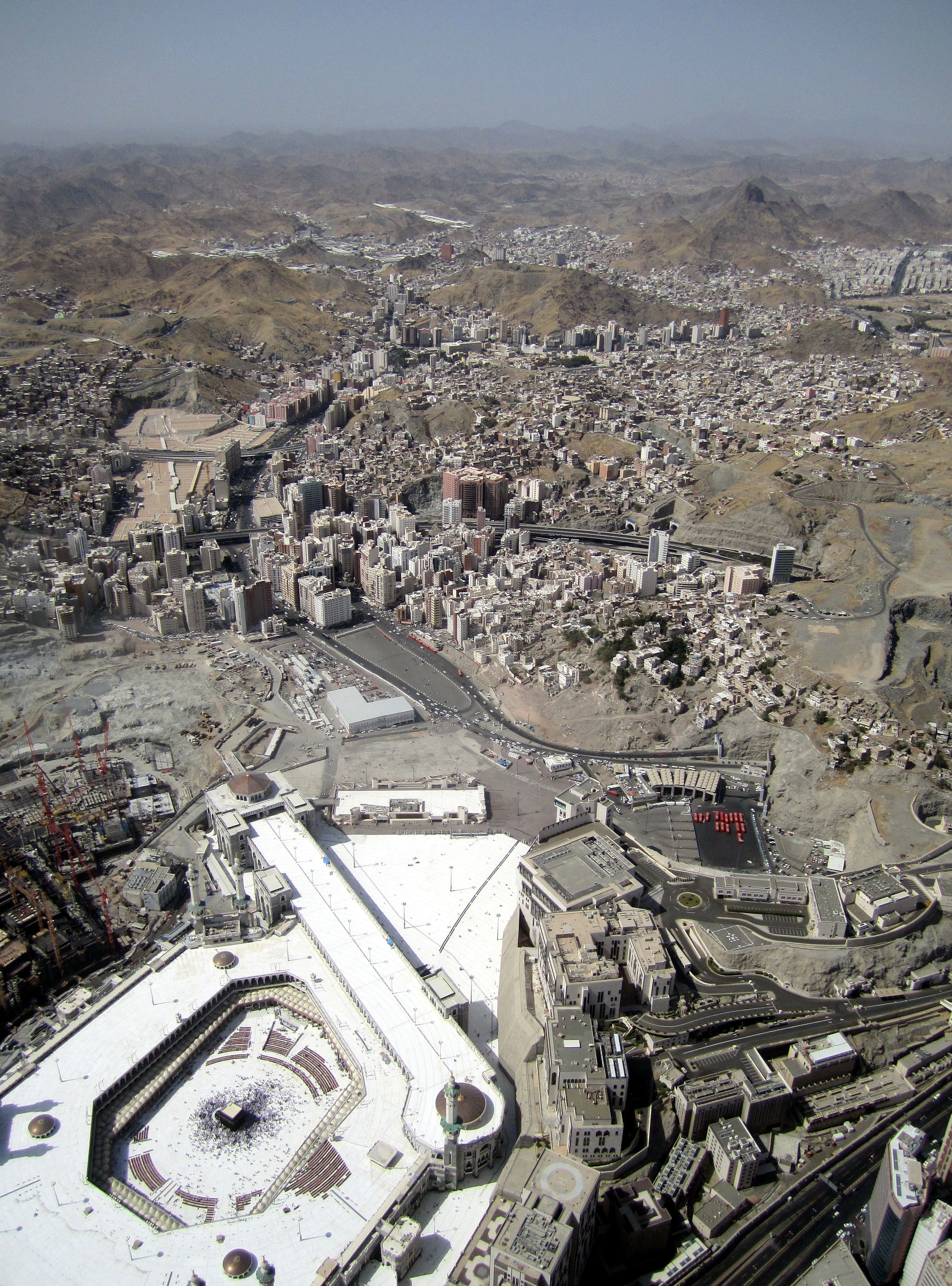 Aereal view from about 550m height onto Masjidul-Haram and northern parts of Makkah including Jabal-Nur.